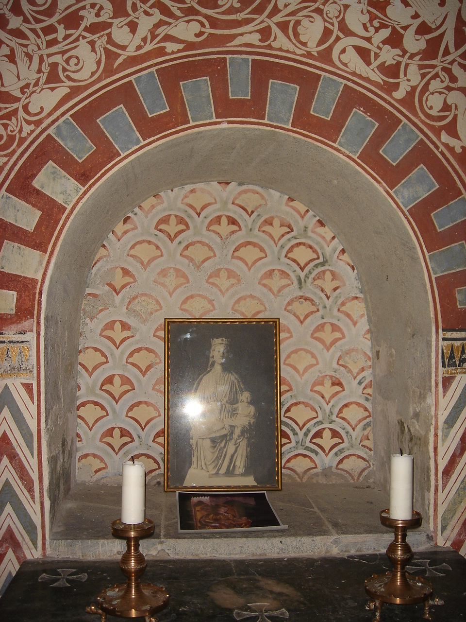 Altar and room for Madonna in Hove kirke, Vik, Sogn og Fjordane, Norway